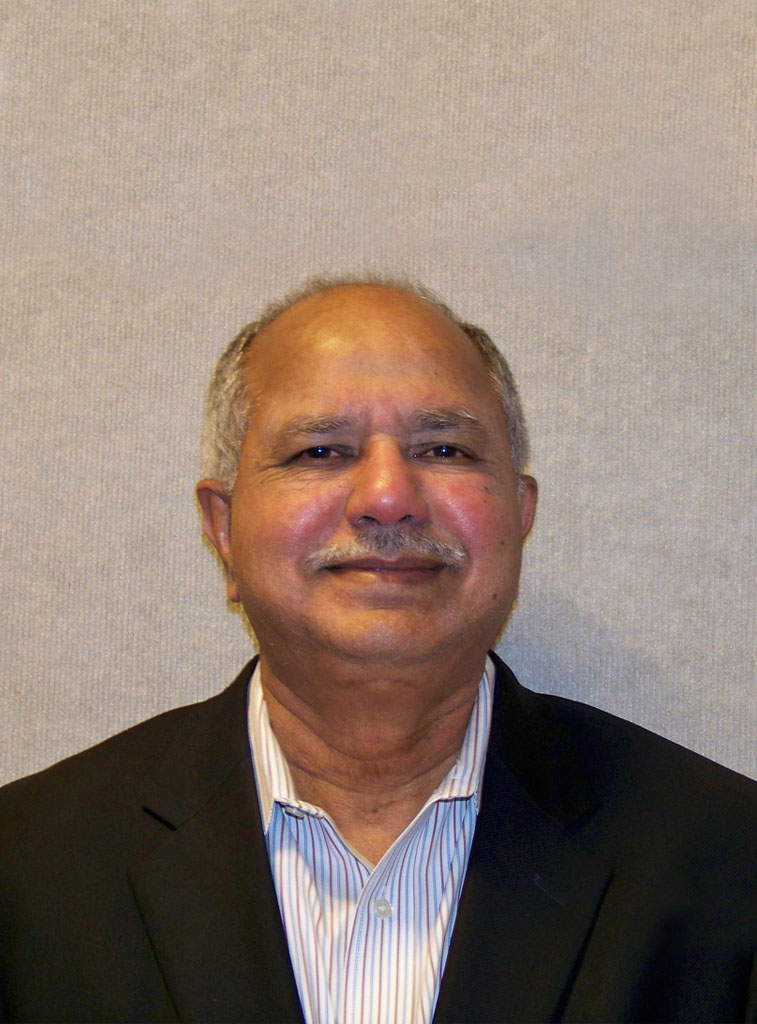 Prof. Raj Reddy in Hyderabad on Jan 2012